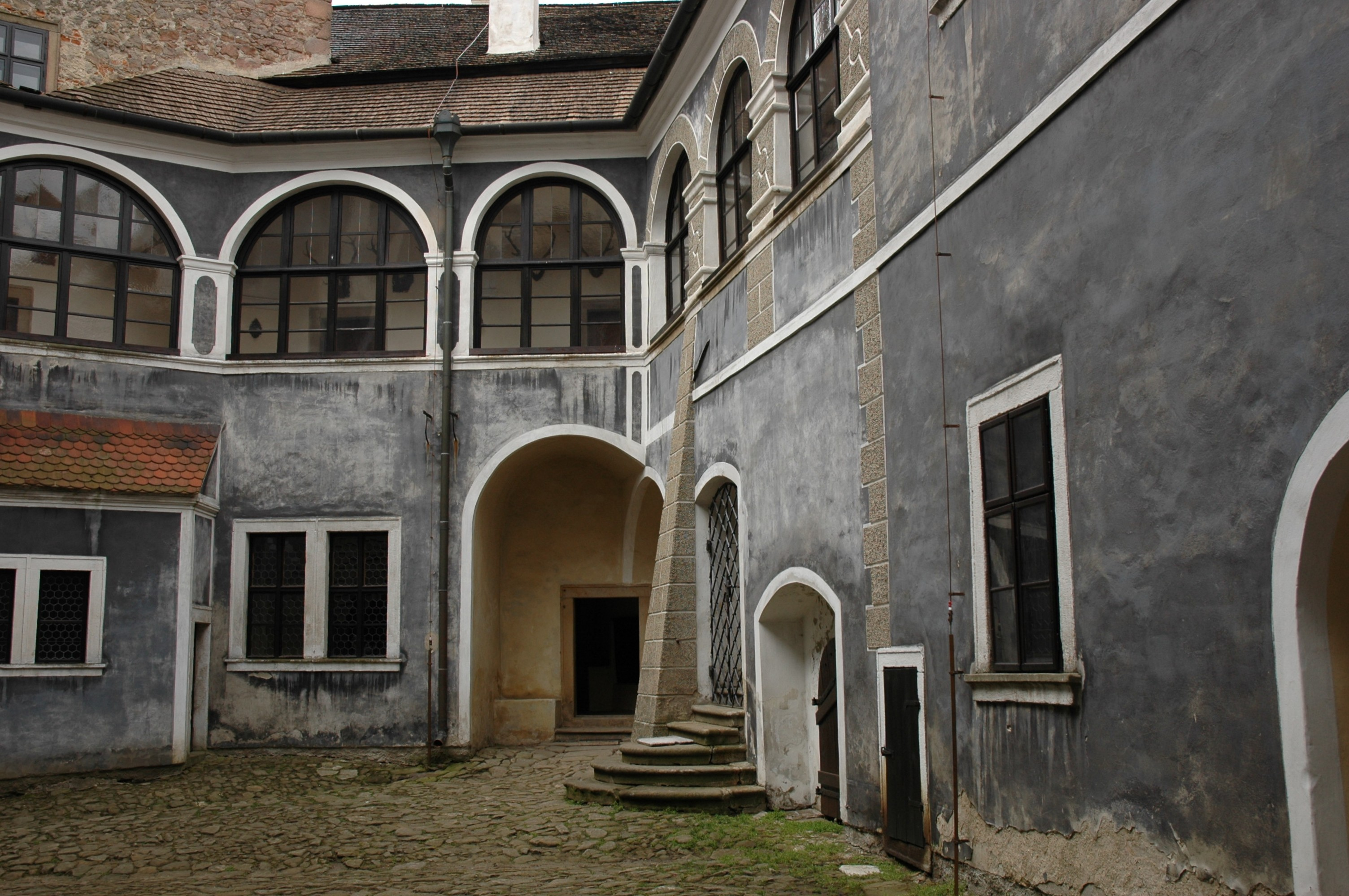 Buchlov Castle Square, Uherské Hradiště District, Czech Republic